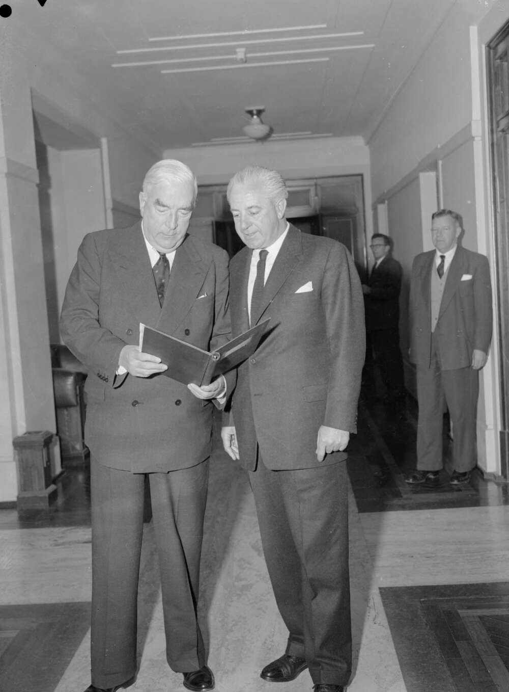 Prime Minister Robert Menzies and Treasurer Harold Holt